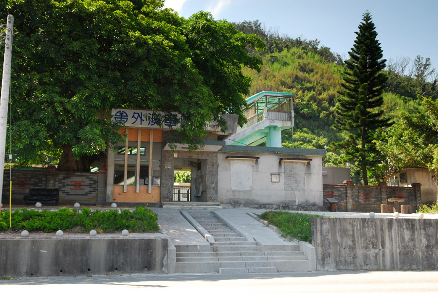 TouCheng Station is a small local train station of Yilan Line, part of Taiwan's eastern rail line. It's located within the boundary of TouCheng Town, YiLan County.